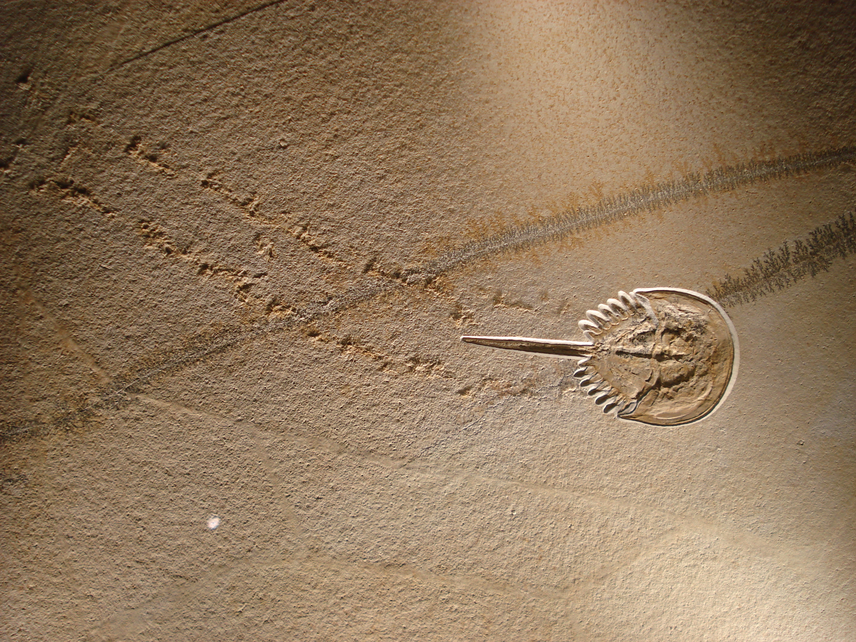 Mesolimulus an extinct arthropod